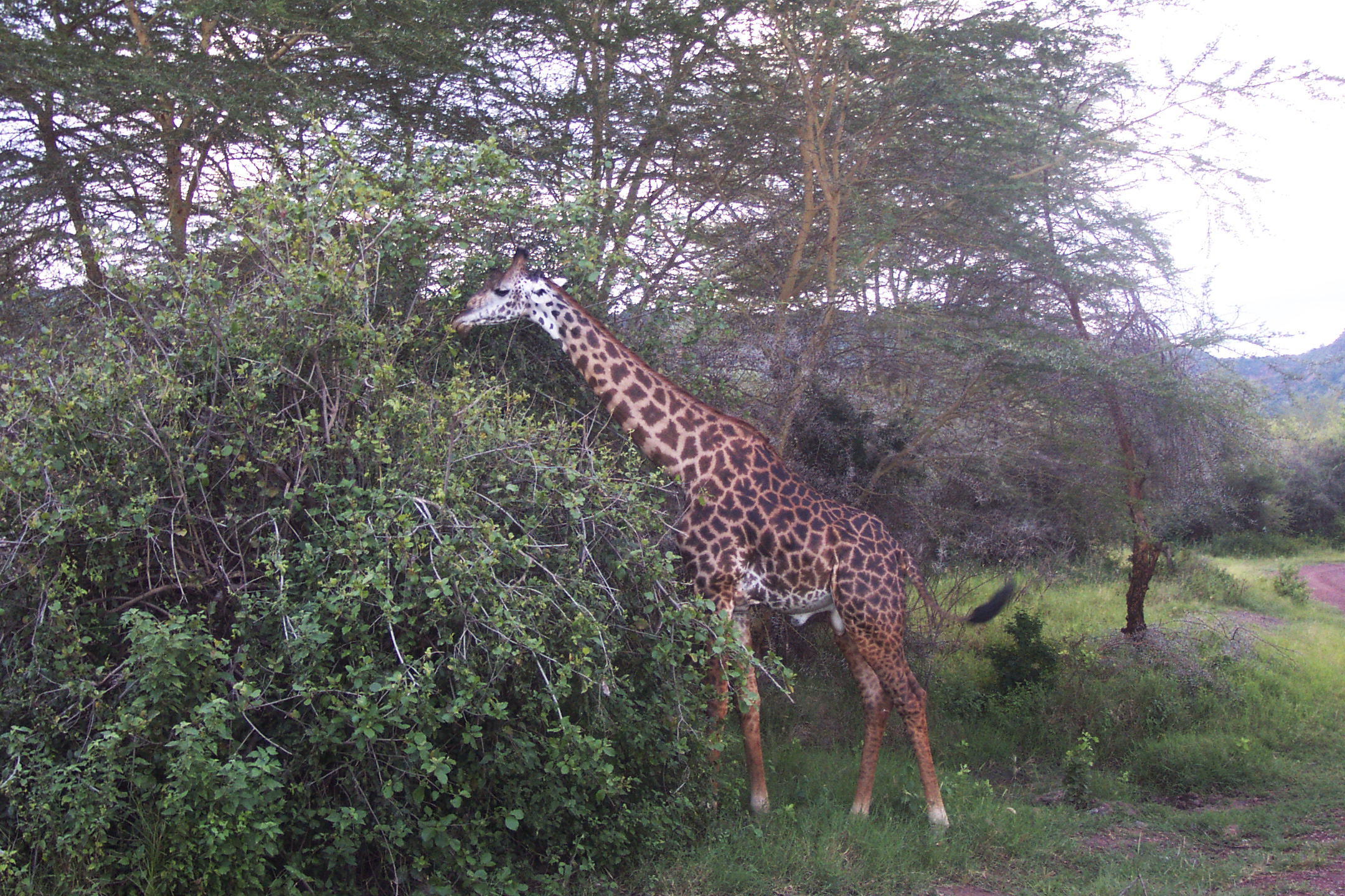 Description =Girafe en Tanzanie Source =Photo taken by Remi Jouan Date =Mai 2002 Author =Remi Jouan